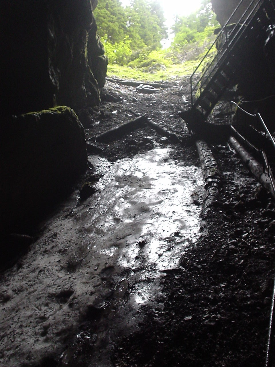 Velika ledena jama (Great Ice Cave), Trnovski gozd, Slovenia